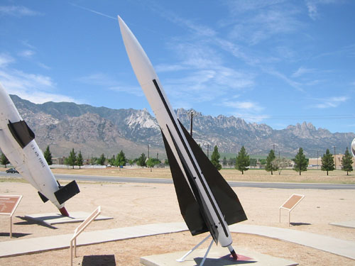 The MIM-23 HAWK missile. From the source, this air-defense missile was capable of knocking out aircraft flying anywhere between 100 and 38,000 feet. Highly mobile, this system could be transported by helicopter and was also used by the U.S. Marine Corps and a host of foreign countries.